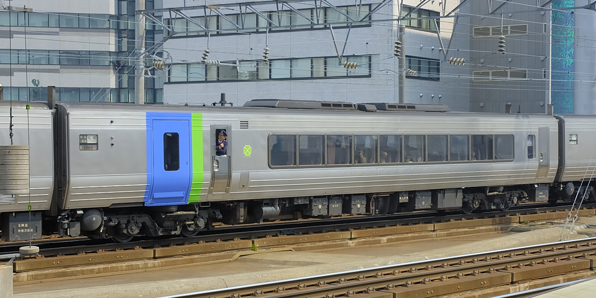 JR Hokkaido KiHa 281 series DMU car KiRo 280-1 (Green car) at Sapporo Station on a Super Hokuto service